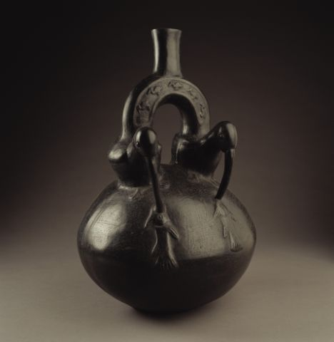 Chimu Piece - Imperial Epoch, North Coast, 1300 A.D. to 1532 A.D. From Larco Museum Collection. Released for free use.